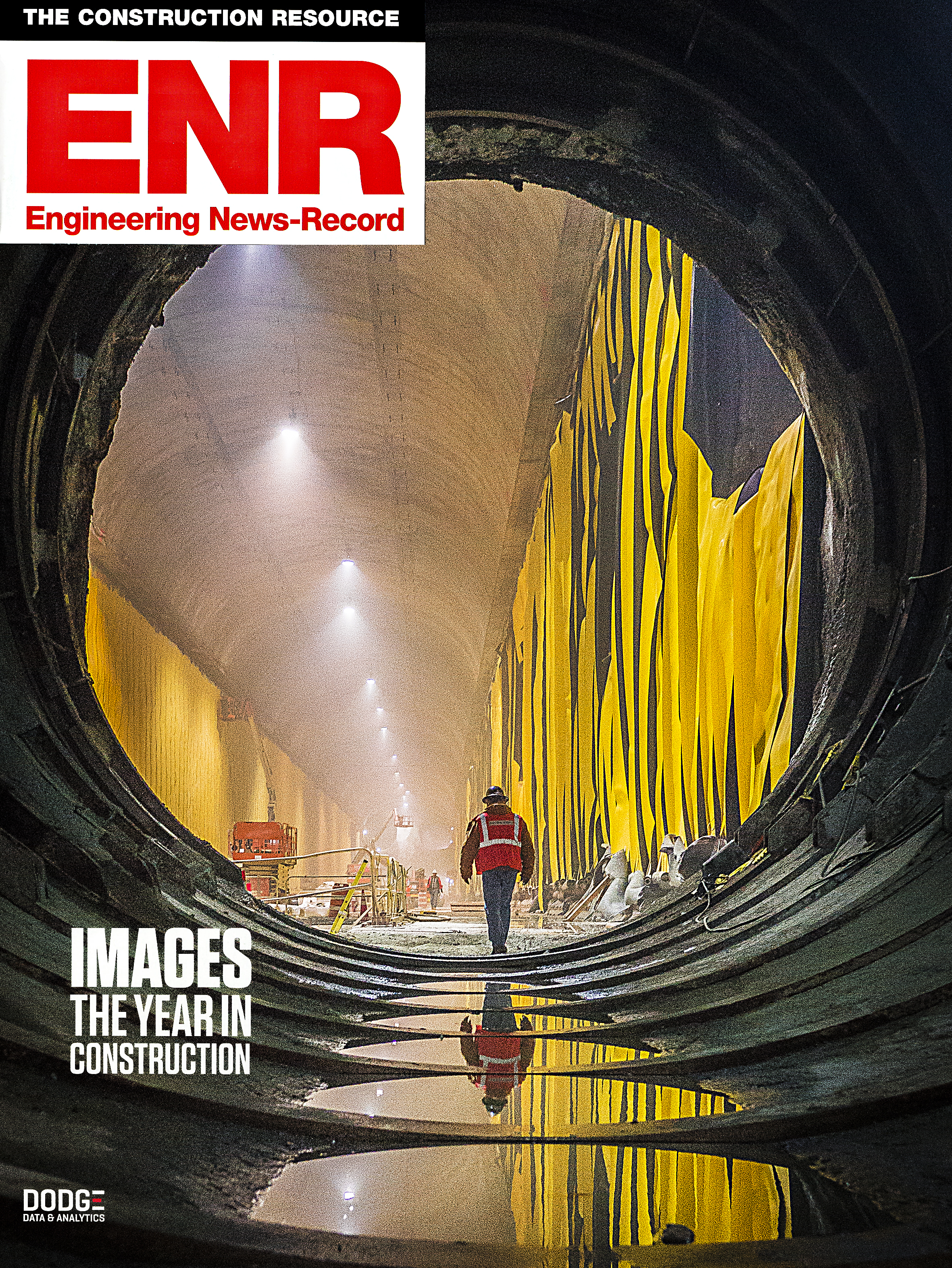 Cover of Engineering News Record featuring winning photo of East Side Access Project by Rehema Trimiew. Taking pictures on MTA’s $10.1-billion East Side Access project, Trimiew says she was struck by the “kind of weird, surreal environment” in a tunnel. The project official pictured “looks like he’s walking off into an unknown yellow wonderland,” she says. Photo: MTA Capital Construction / Rehema Trimiew